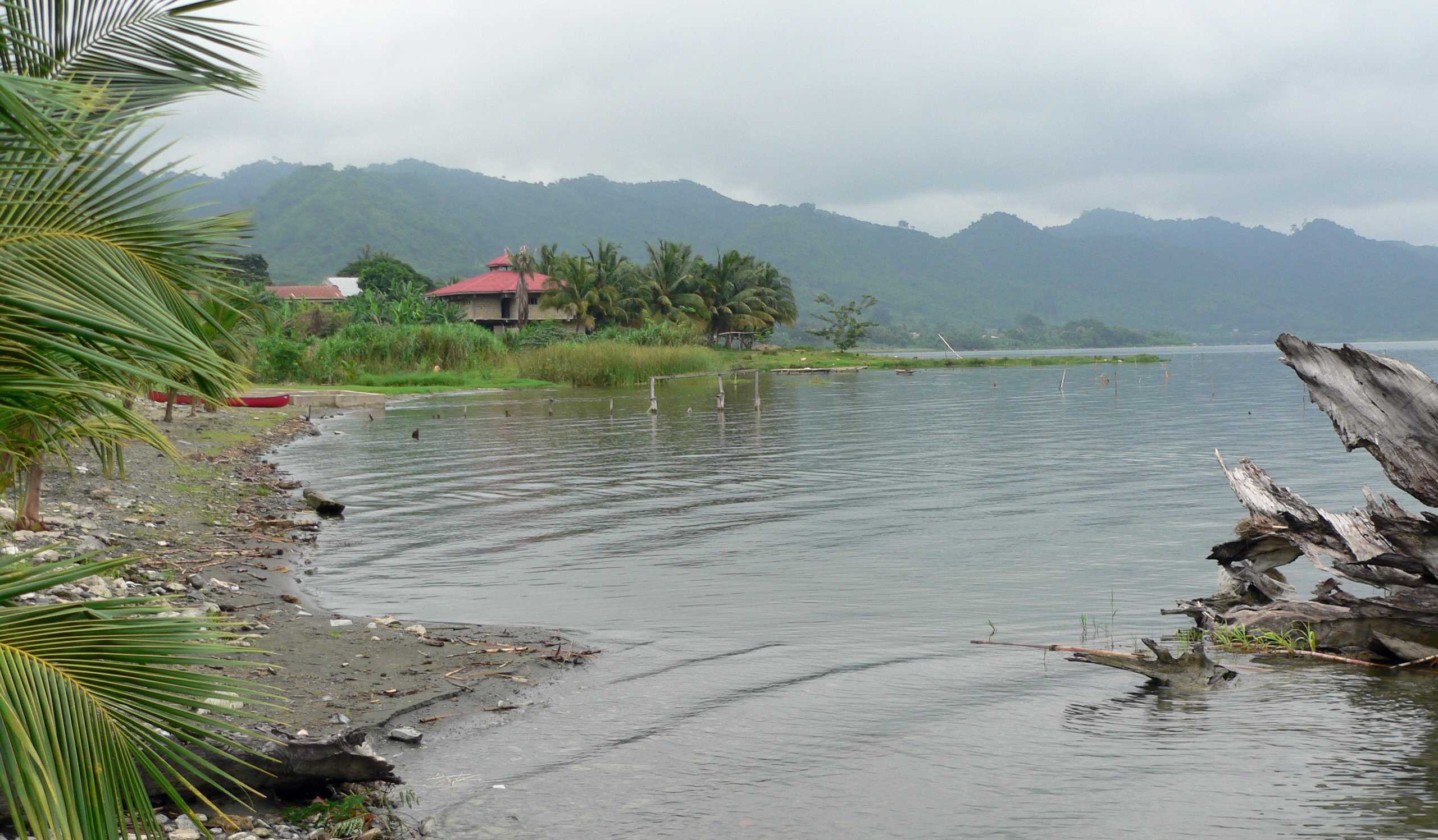 Even though the weather was rather grey this morning, Lake Bosumtwi looked pretty nice.